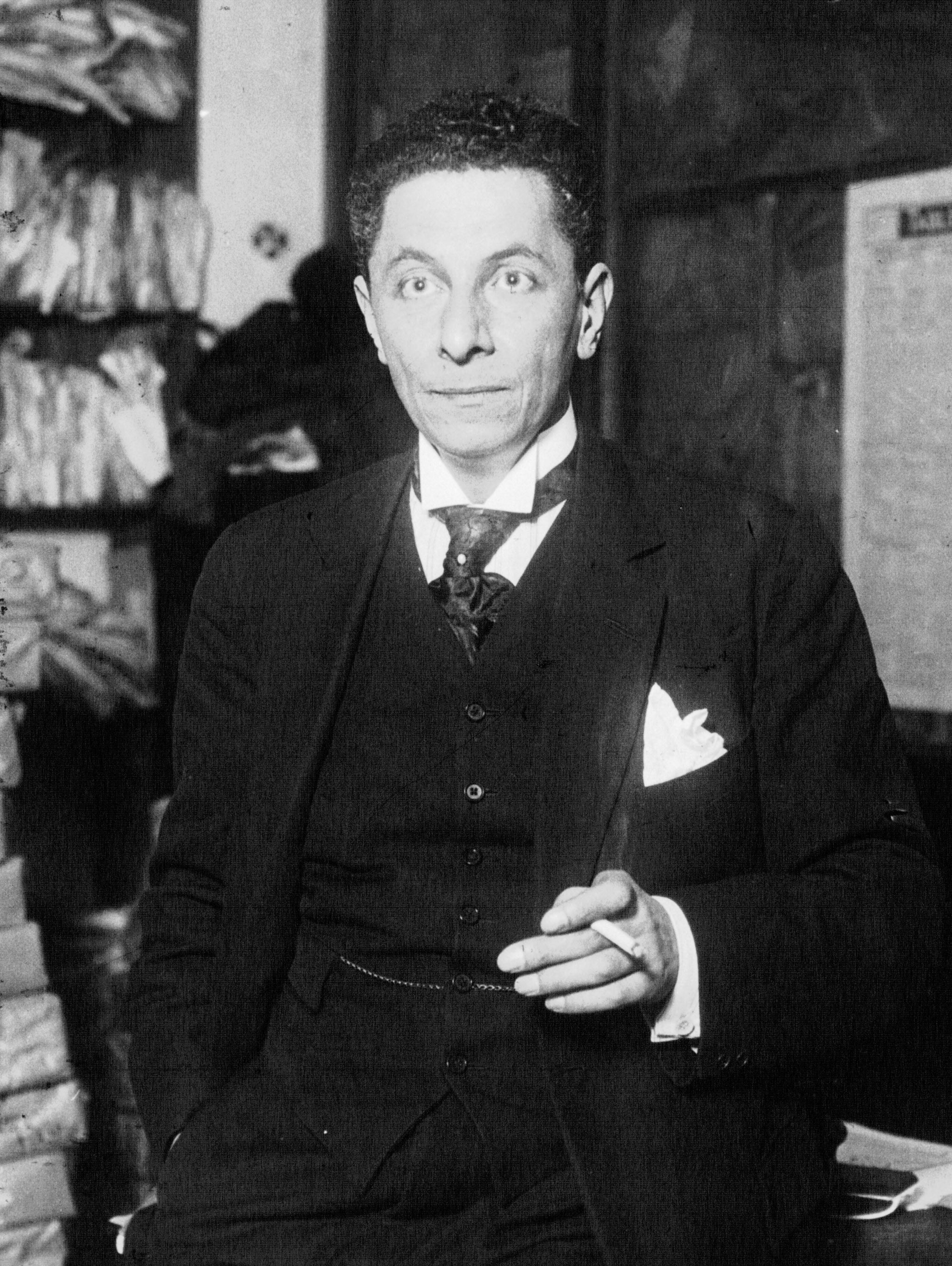 French novelist Henri Deberly (1882-1947) on his receiving the Prix Goncourt in 1926.